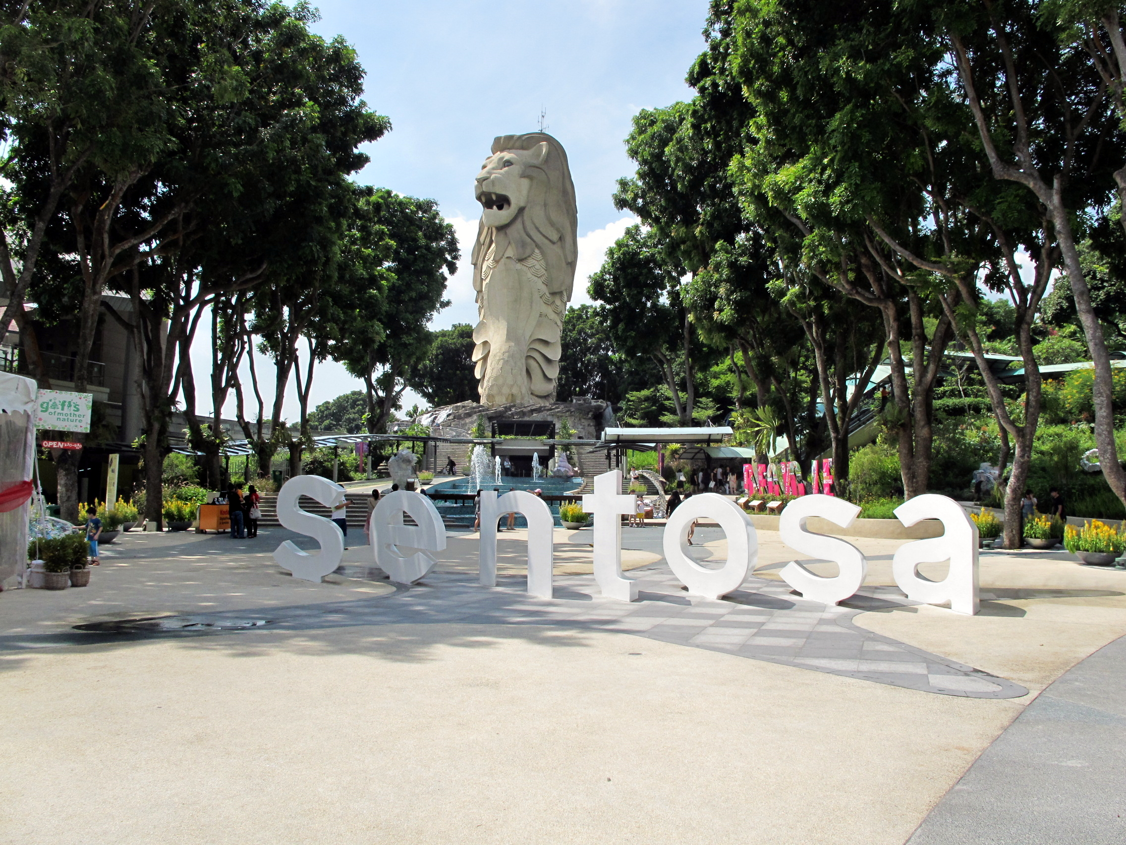 The Merlion statue at Sentosa Island. Located on Sentosa Island, in Singapore.